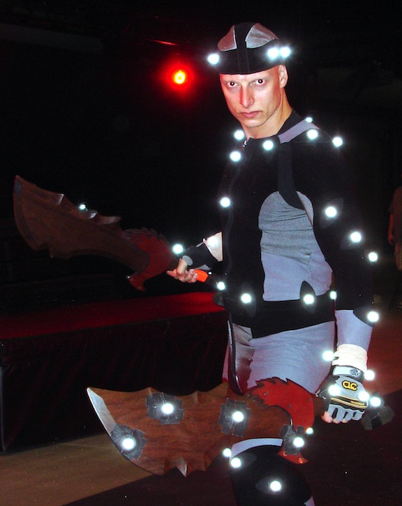 Gatt as the motion capture actor for 'KRATOS' from God Of War II & III on the mocap stage for SCEA in San Diego.